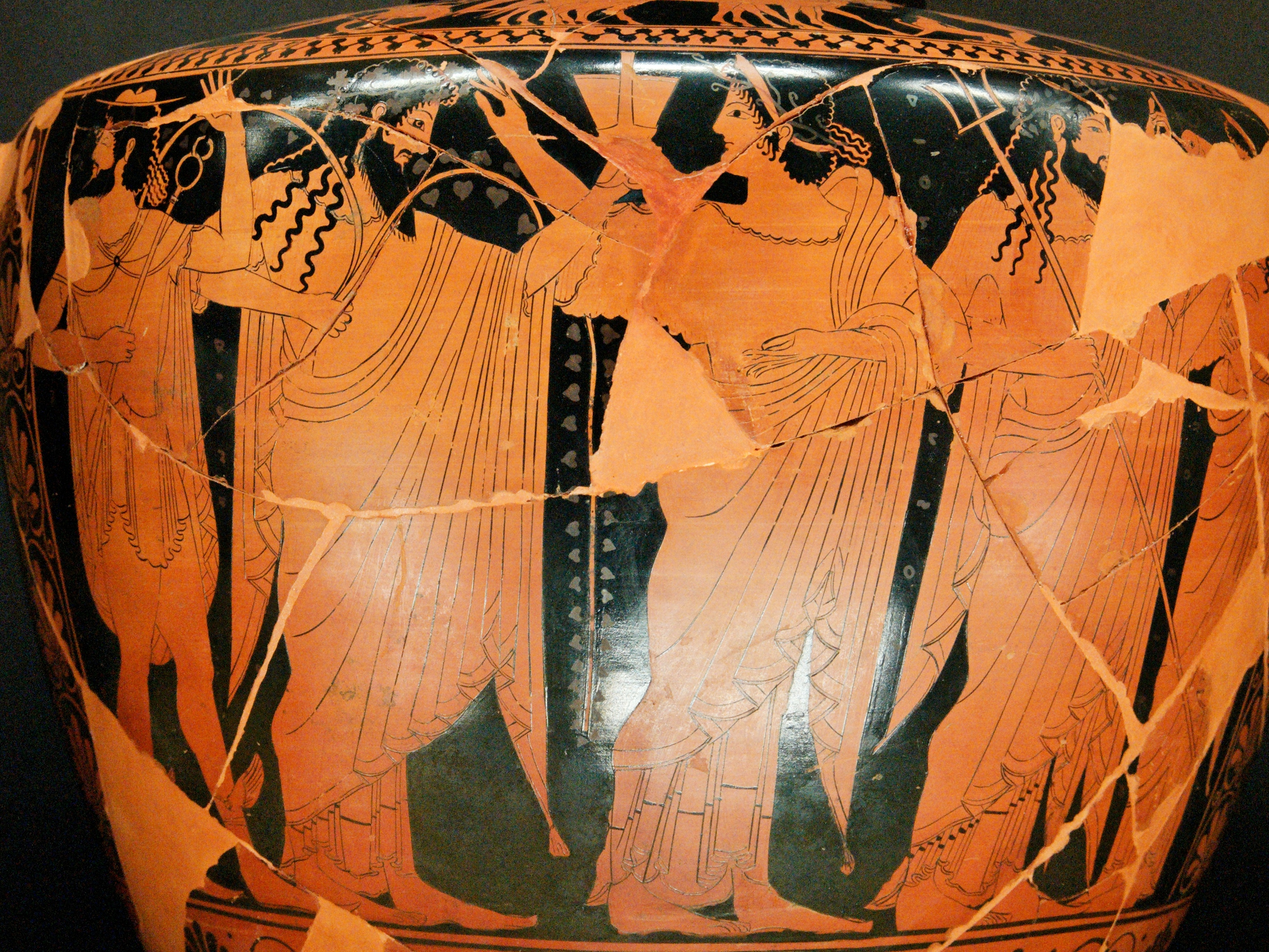 Hermes, Dionysos, Ariadne and Poseidon (Amphitrite is also depicted but cannot be seen here). Detail from the belly of an Attic red-figure hydria, ca. 510 BC–500 BC. From Etruria.